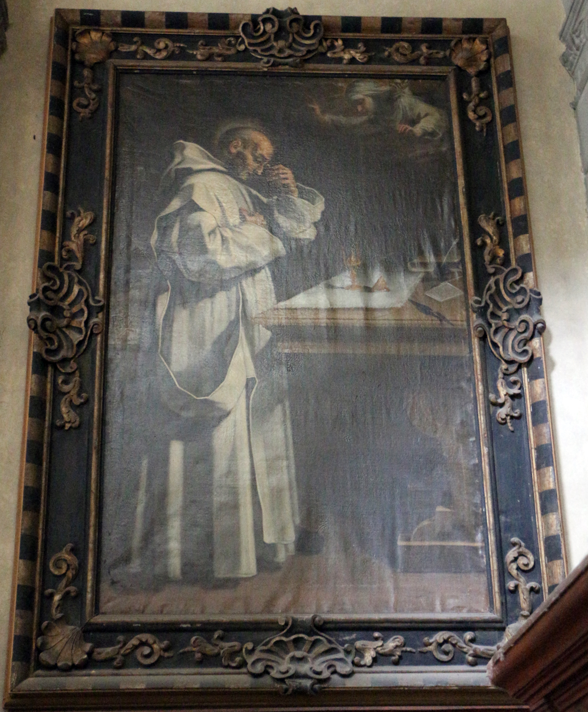 Certosa (Florence) - San Lorenzo (Lay brothers area)